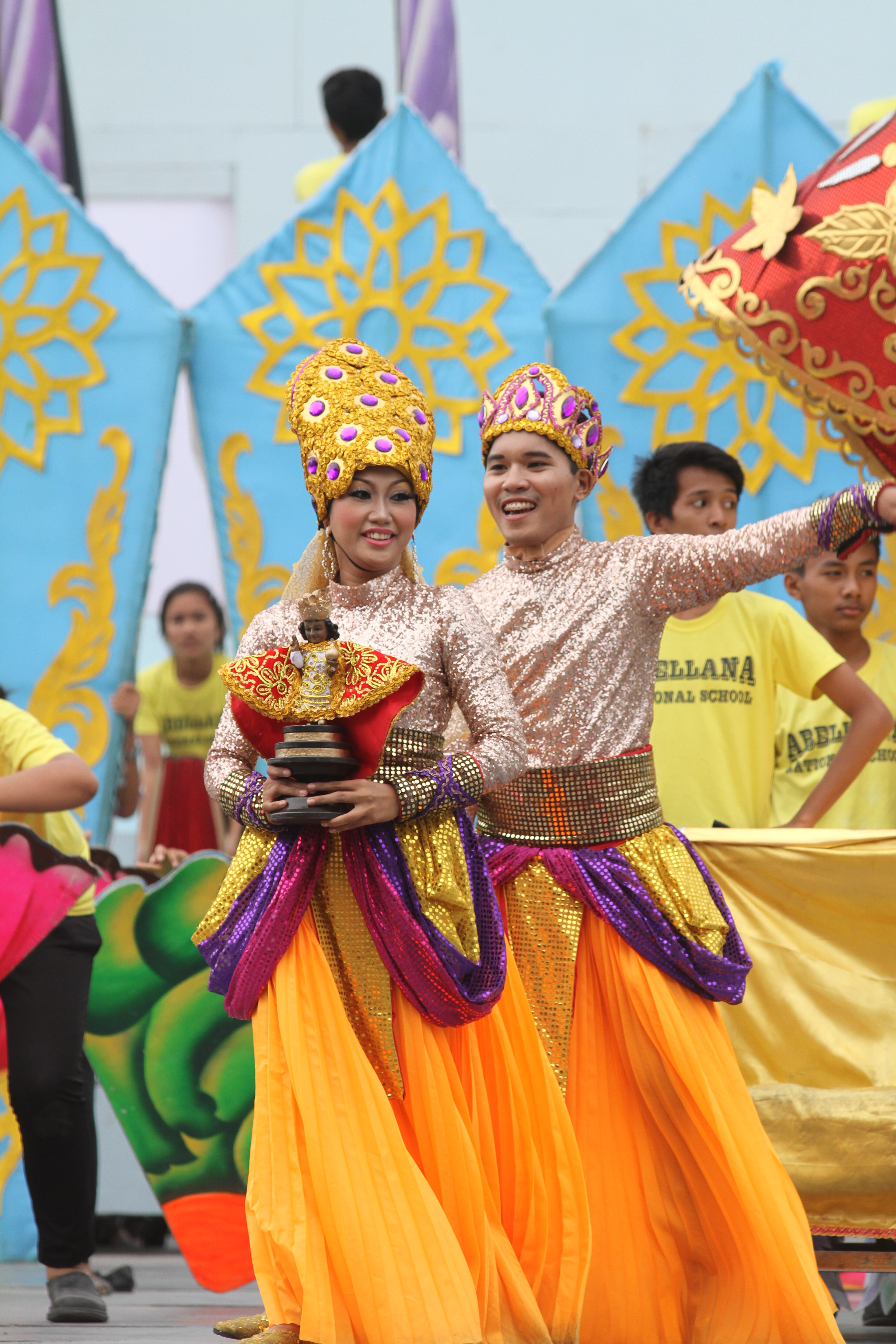 Sinulog Festival Cebu City